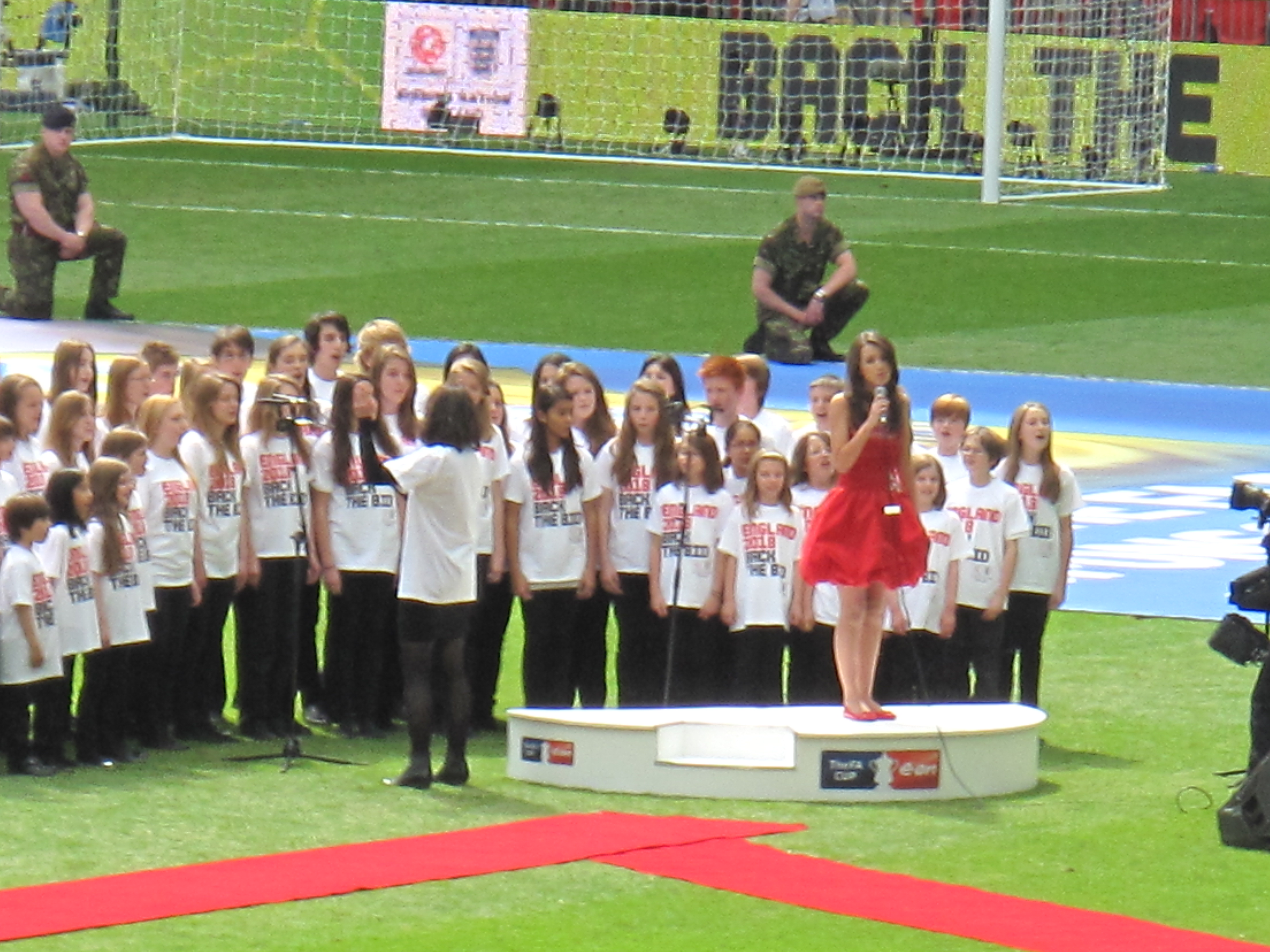 Faryl Smith singing the British national anthem at the FA Cup Final in 2010.